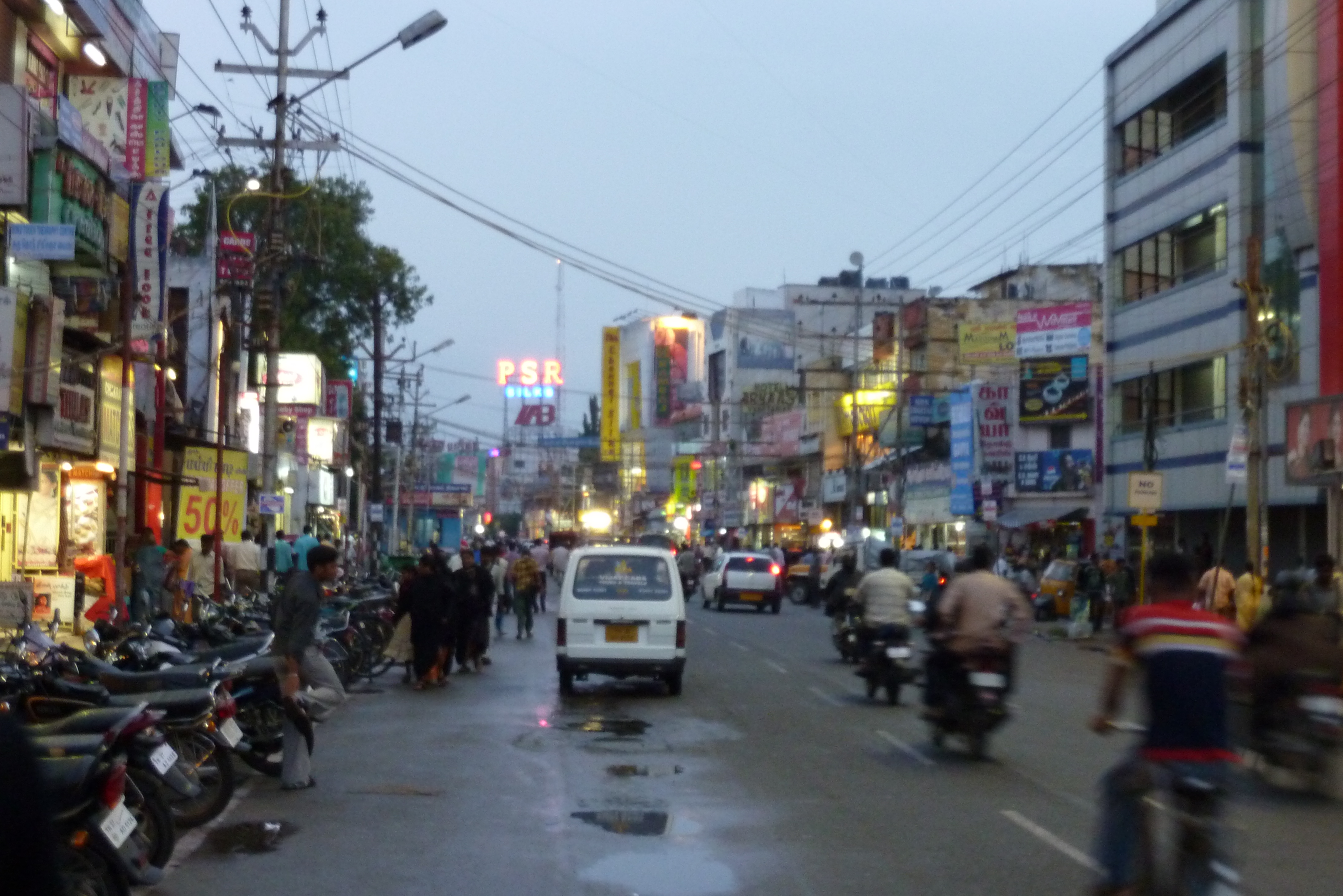 the biggest shopping area: Cross Cut Road, Coimbatore, December 2009